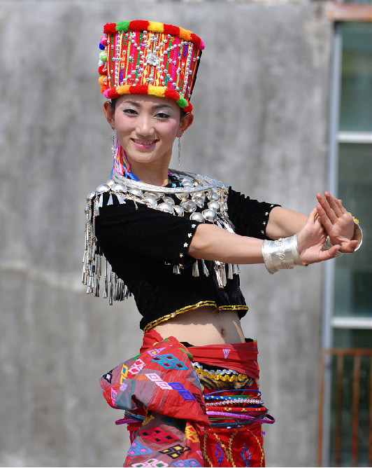 This Dress are worn by the young girls in Singpho community during Shapawng yawng manau poi.